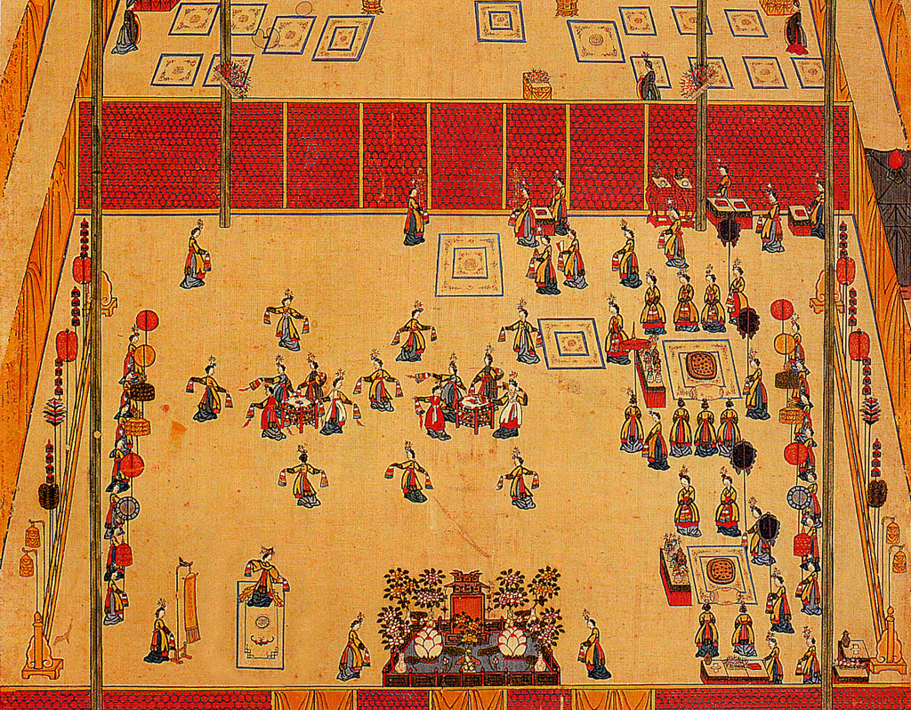 Mugo, drum dance depicted in the picture titled "Gojong Imin Jinyeon Dobyeong" (literally Painting screen folder illustrating the feast for Korean Emperor Gojong in Imin year (1902)